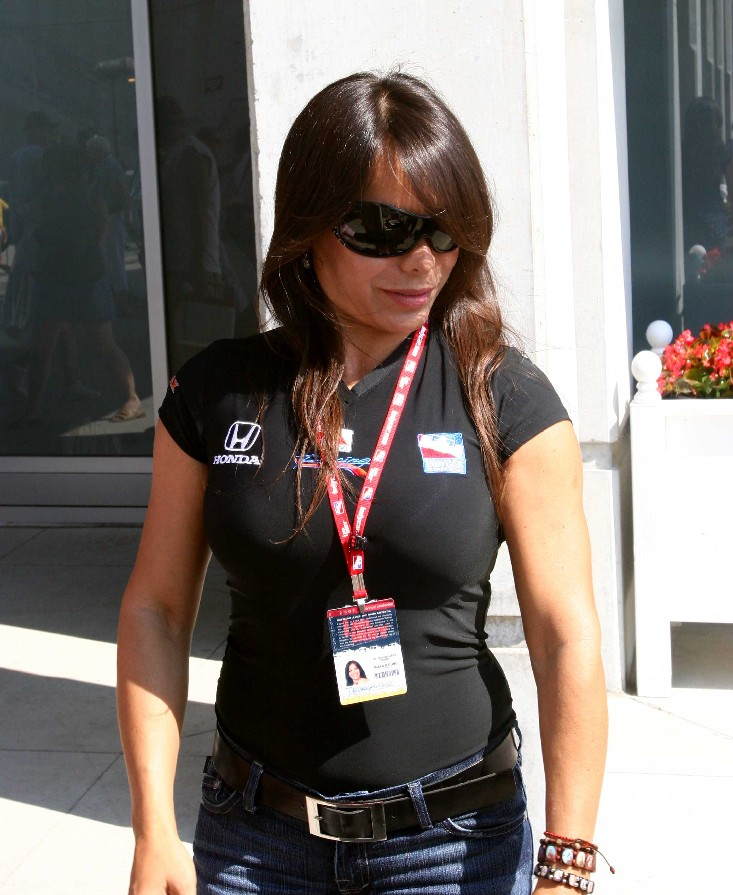 Taken outside of the press area at Indy, May 12, 2007 by Tim Wohlford